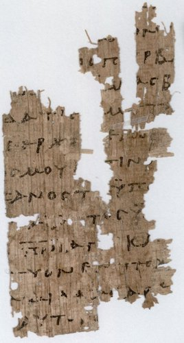 Papyrus 101 verso Mat. 3:16